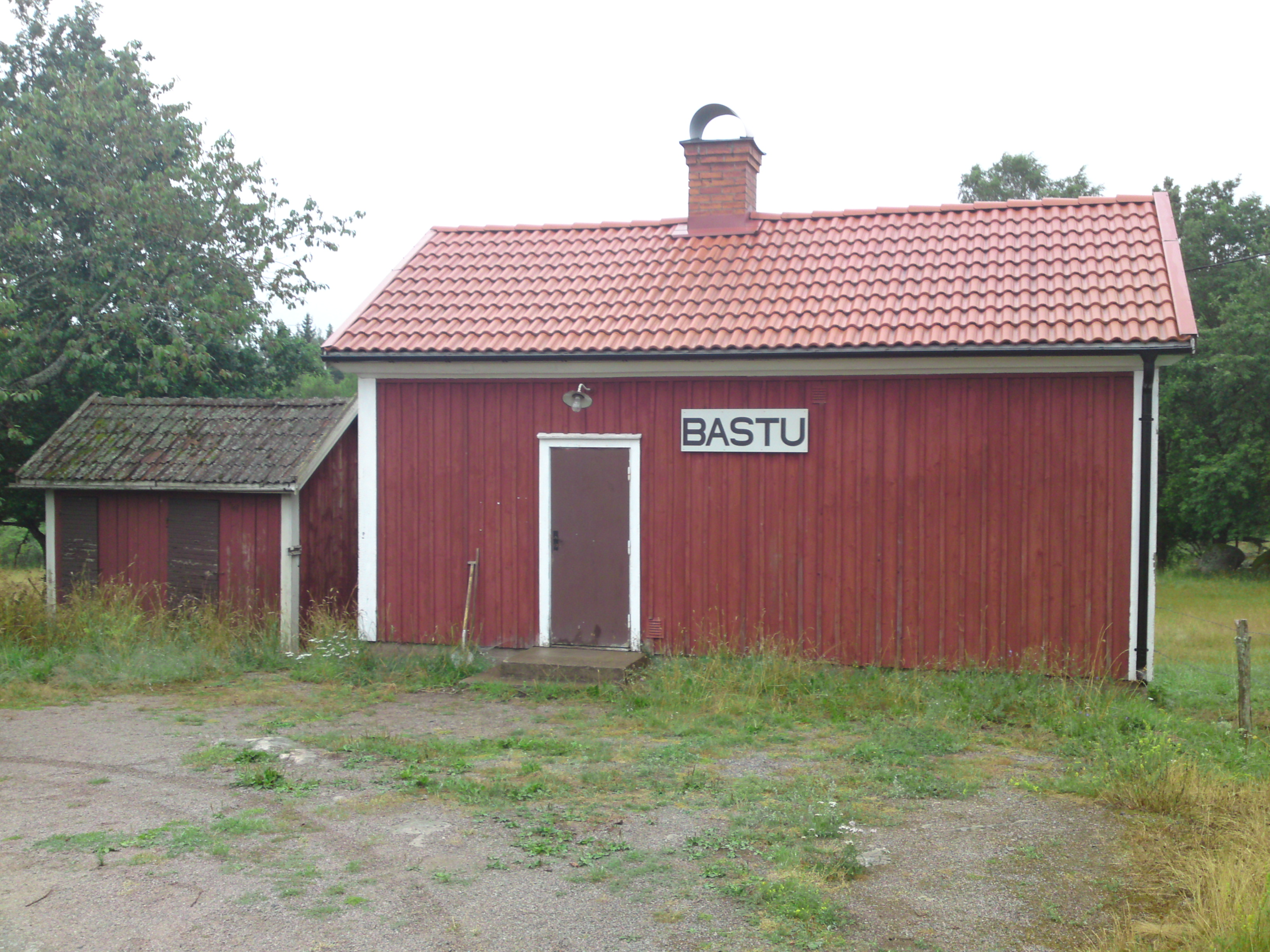 Bösebo sauna